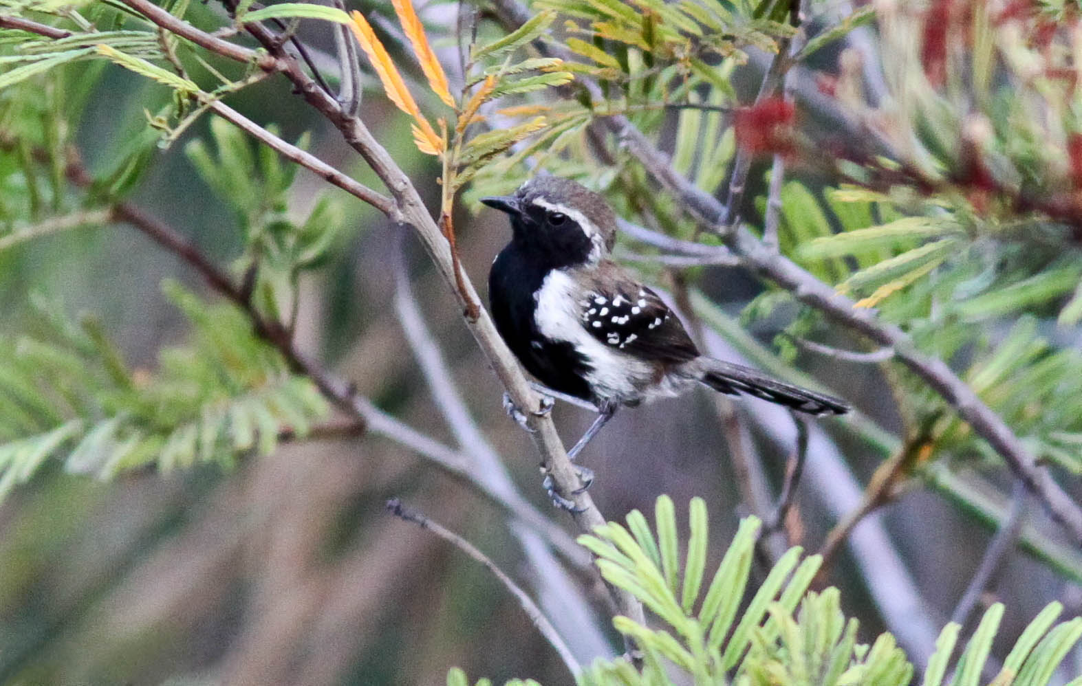 Chapada Diamantina - state of Bahia - NE Brazil